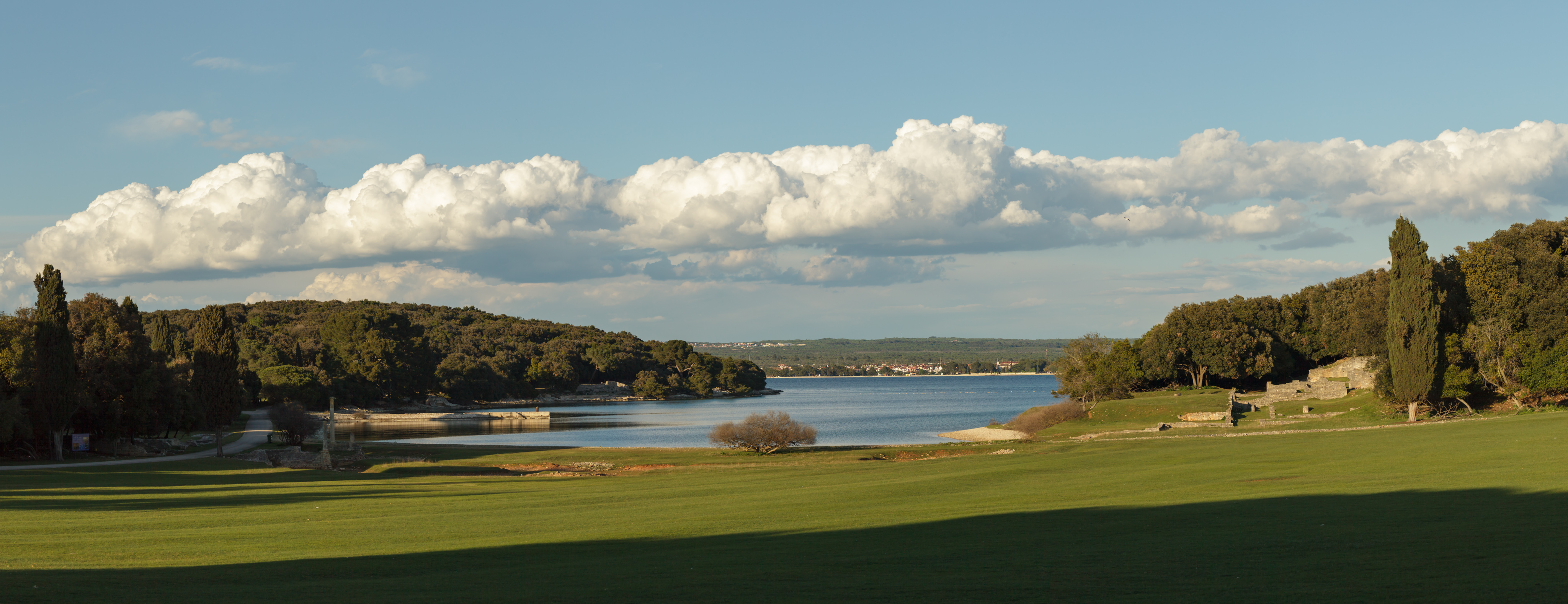 A panorama in National park Brijuni, stitched from multiple photos